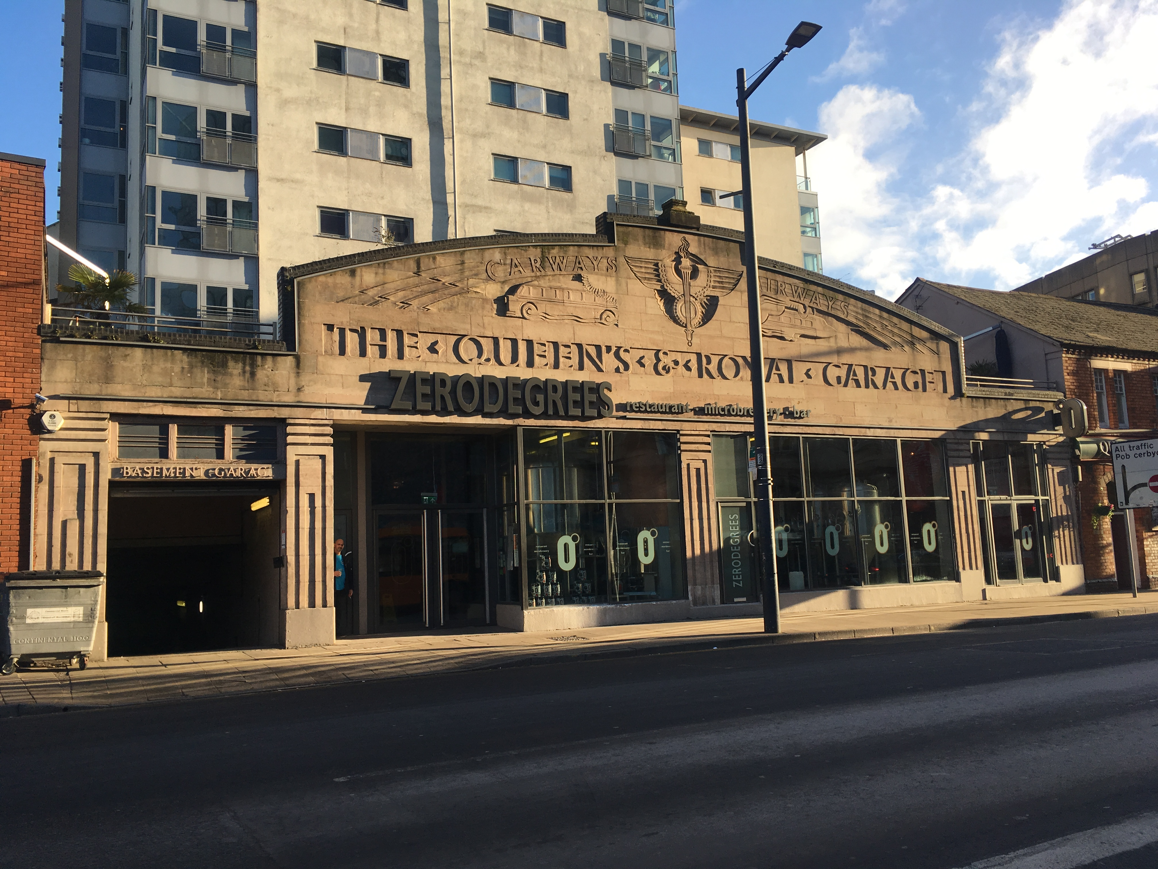 Queen's & Royal Garage, Cardiff